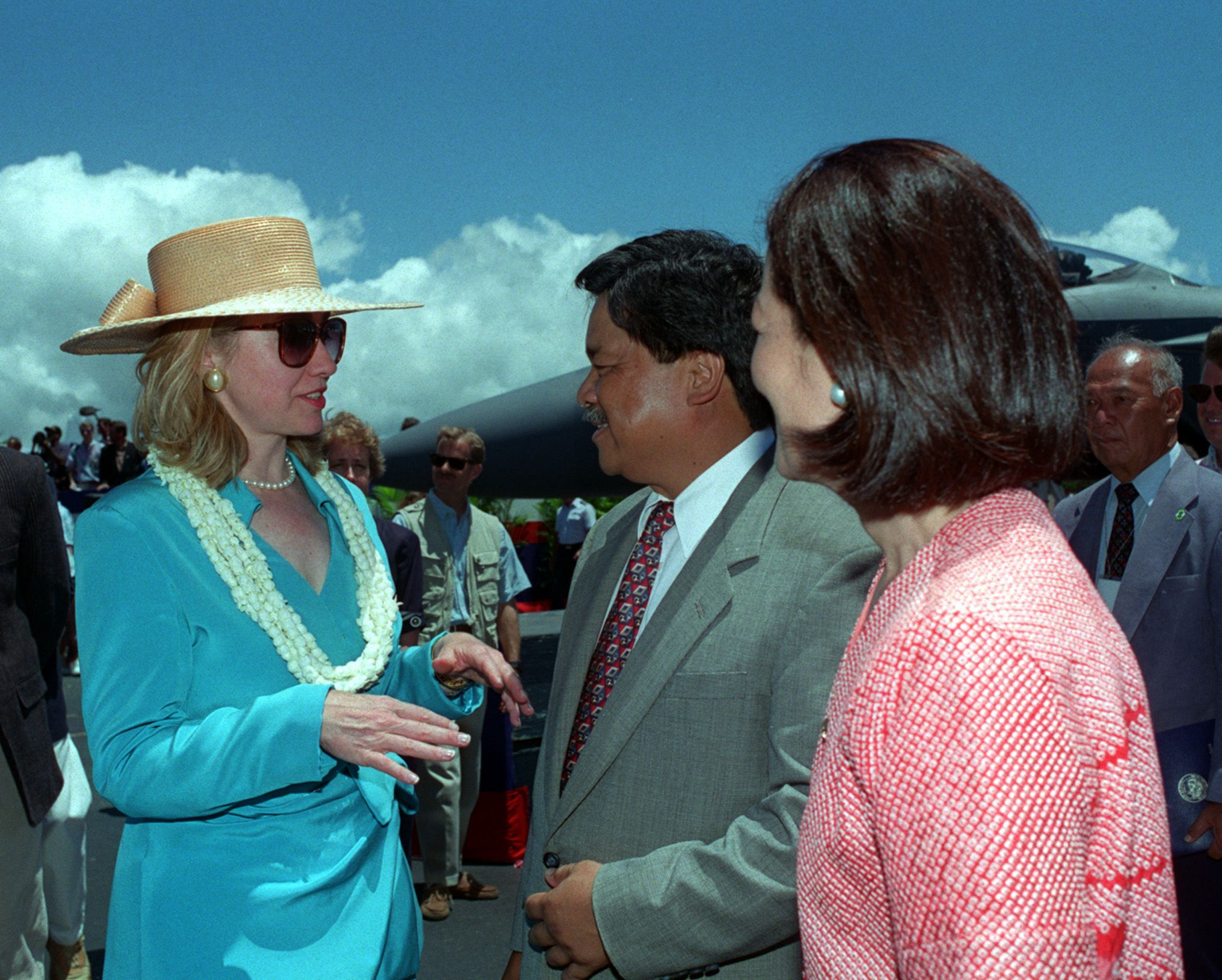 "Hawaii Governor Ben Cayetano welcomes First Lady Hillary Clinton on her arrival for the commemoration of the 50th anniversary of World War II." Hickam Air Force Base, Hawaii